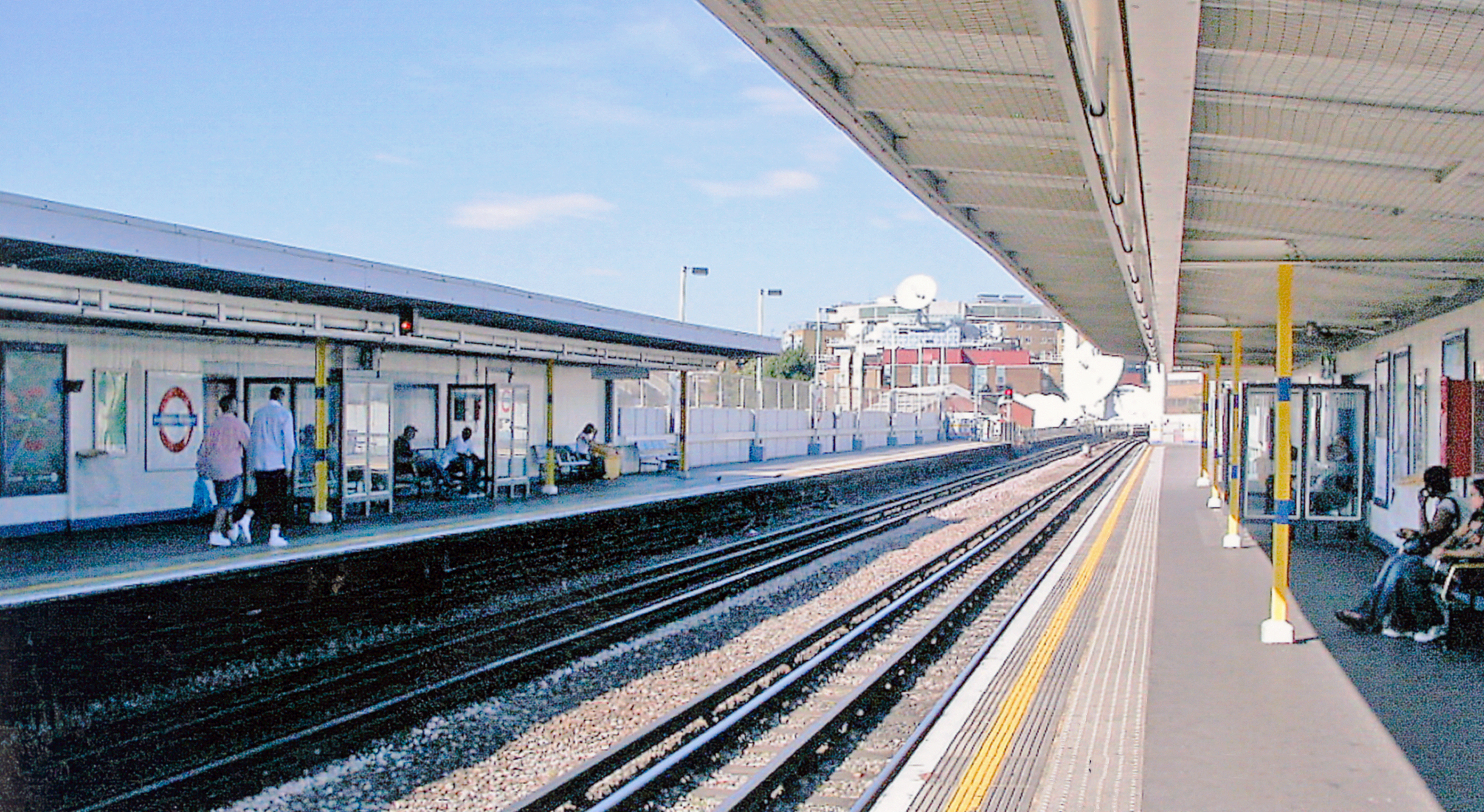 Shepherds Bush Market Station, London Underground. View northward, towards Paddington, Edgware Road, Farringdon, Whitechapel and Barking: Hammersmith & City Line, formerly Metropolitan & GWR Joint. 'Market' recently (10/08) added to the name, for the new Westfield Centre.